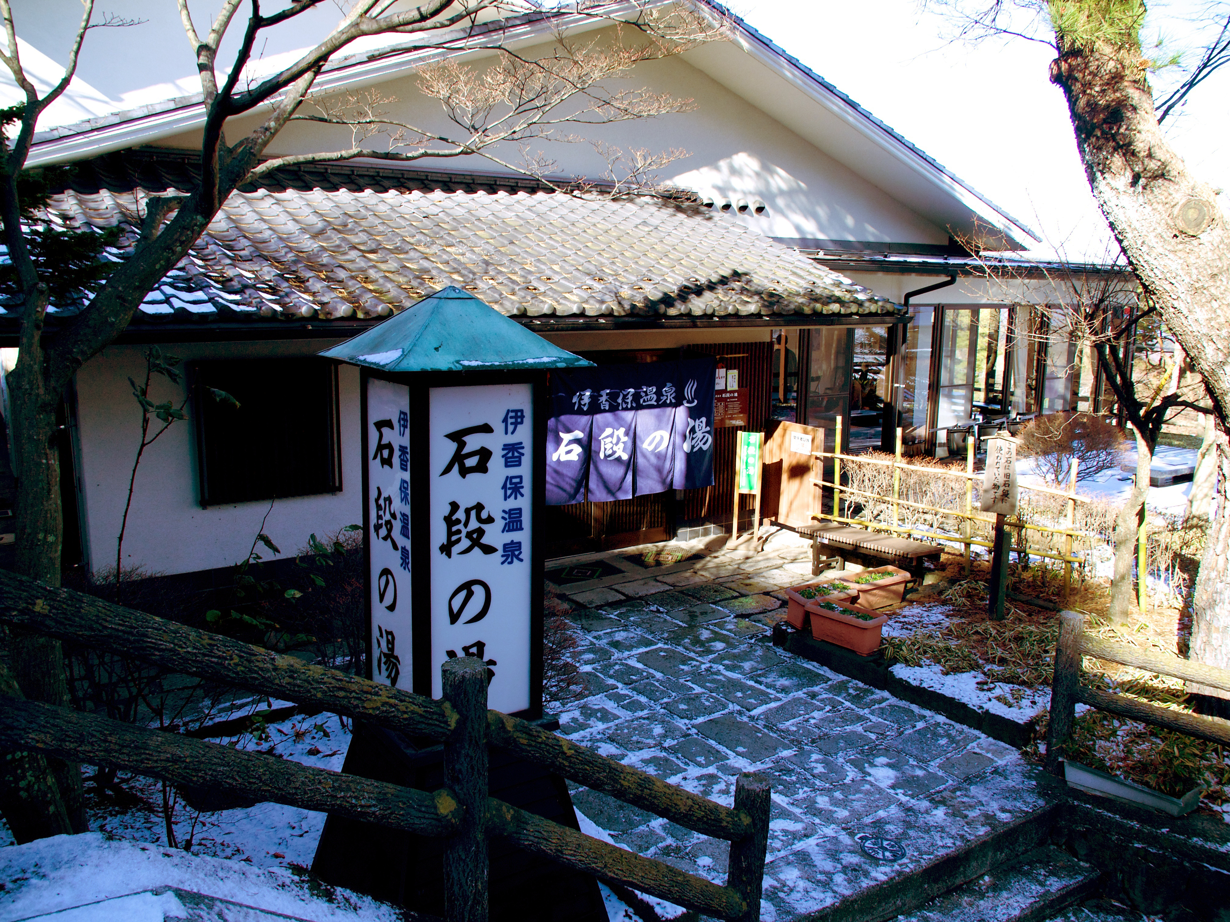 Ishidan no yu, a public hot spring house at Ikaho Onsen . Visit its official website (Japanese).